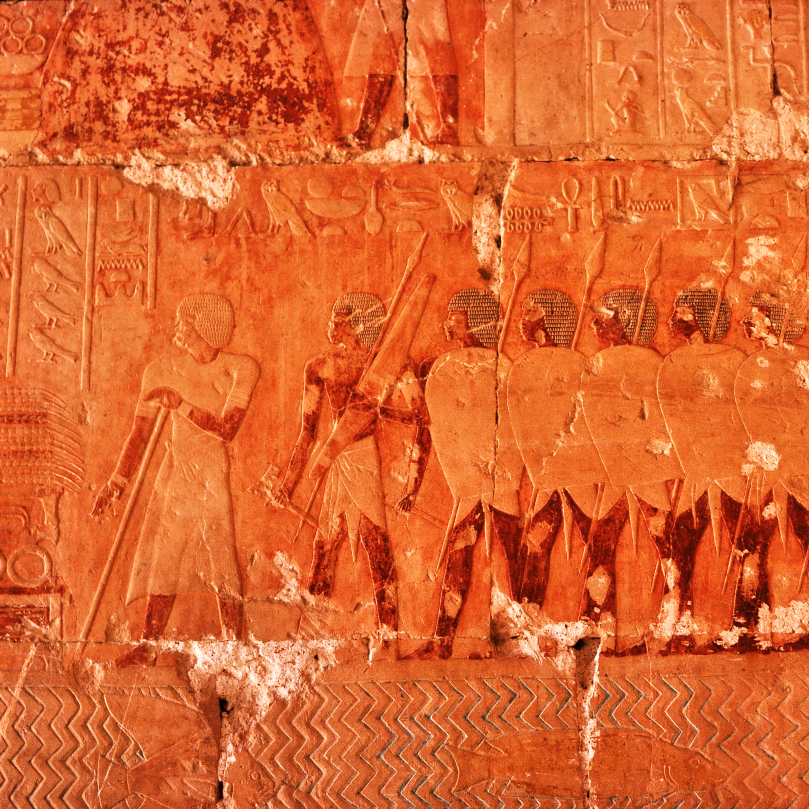 Egyptian expedition to Punt during the reign of Hatshepsut